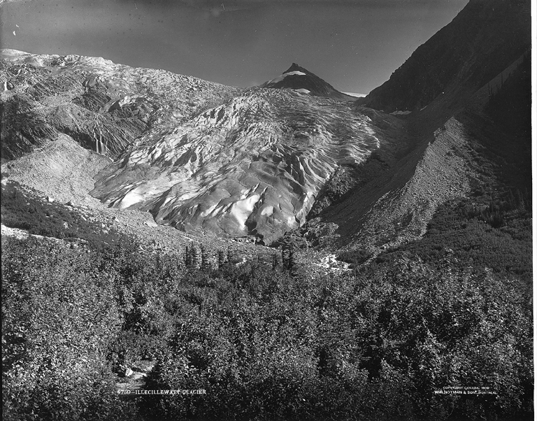 Illecillewaet Glacier, Glacier Park, BC, 1909